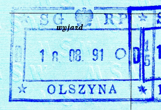 Post-communist, pre-Schengen passport stamp from Olszyna, 1991